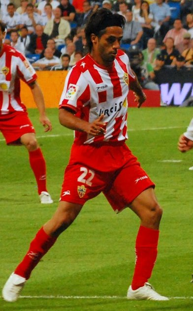 Colombian football player Fabián Vargas while playing for UD Almería